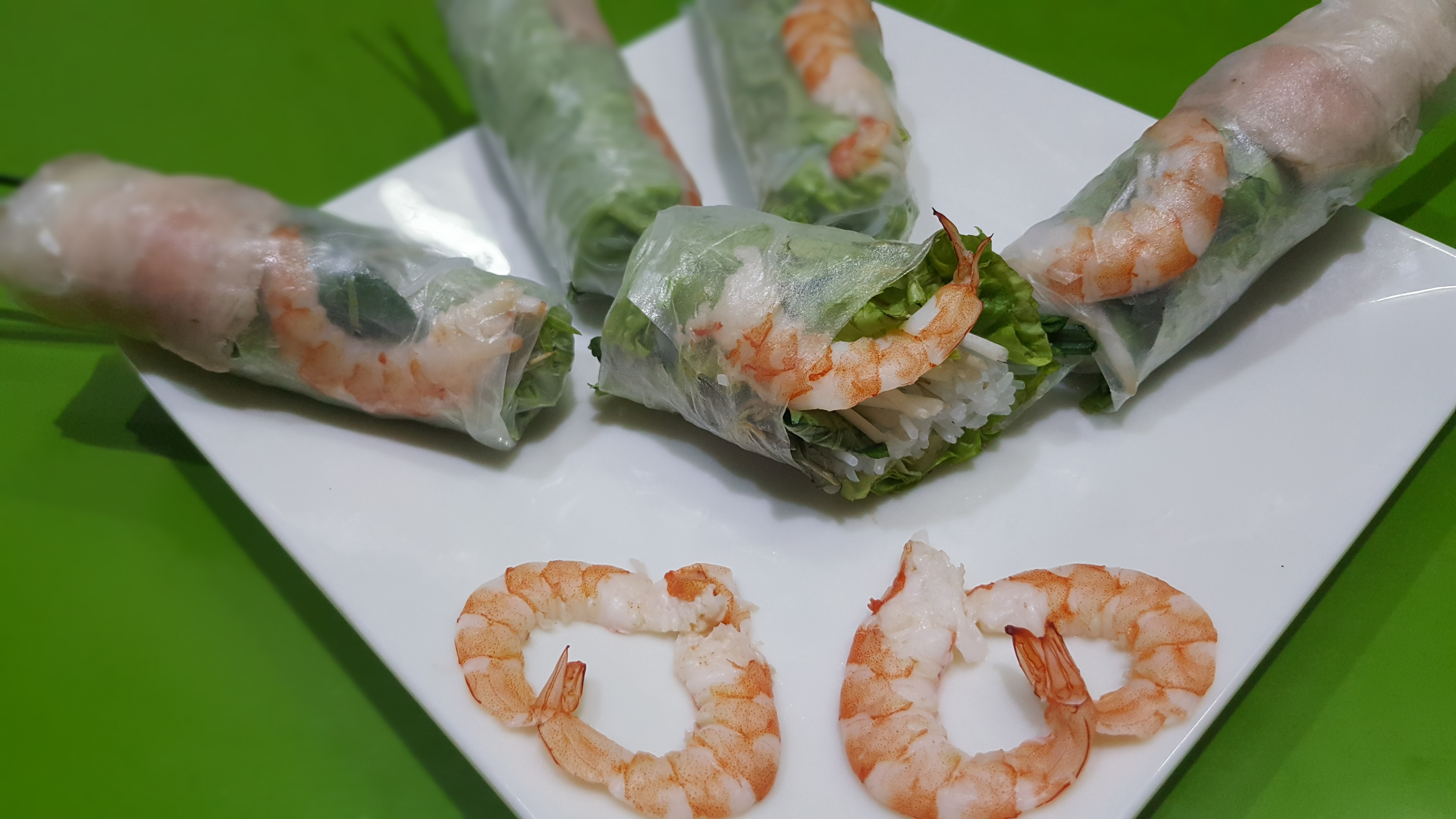 Gỏi cuốn (Vietnamese spring rolls)